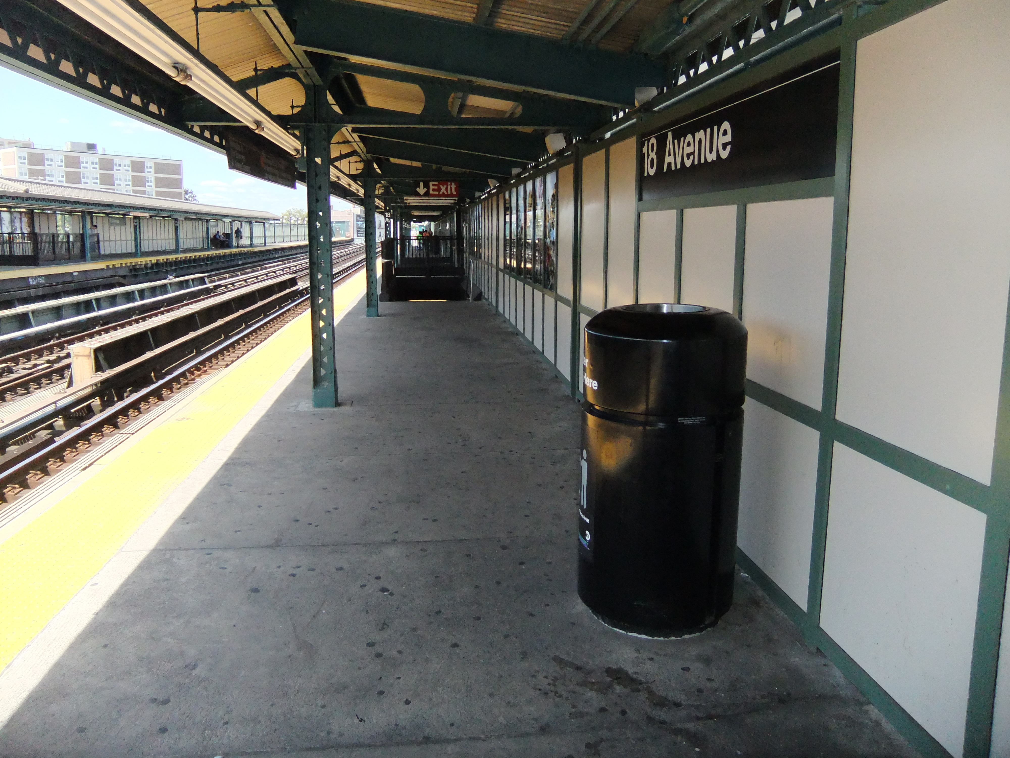 Manhattan bound platform at the 18th Avenue station (West End).